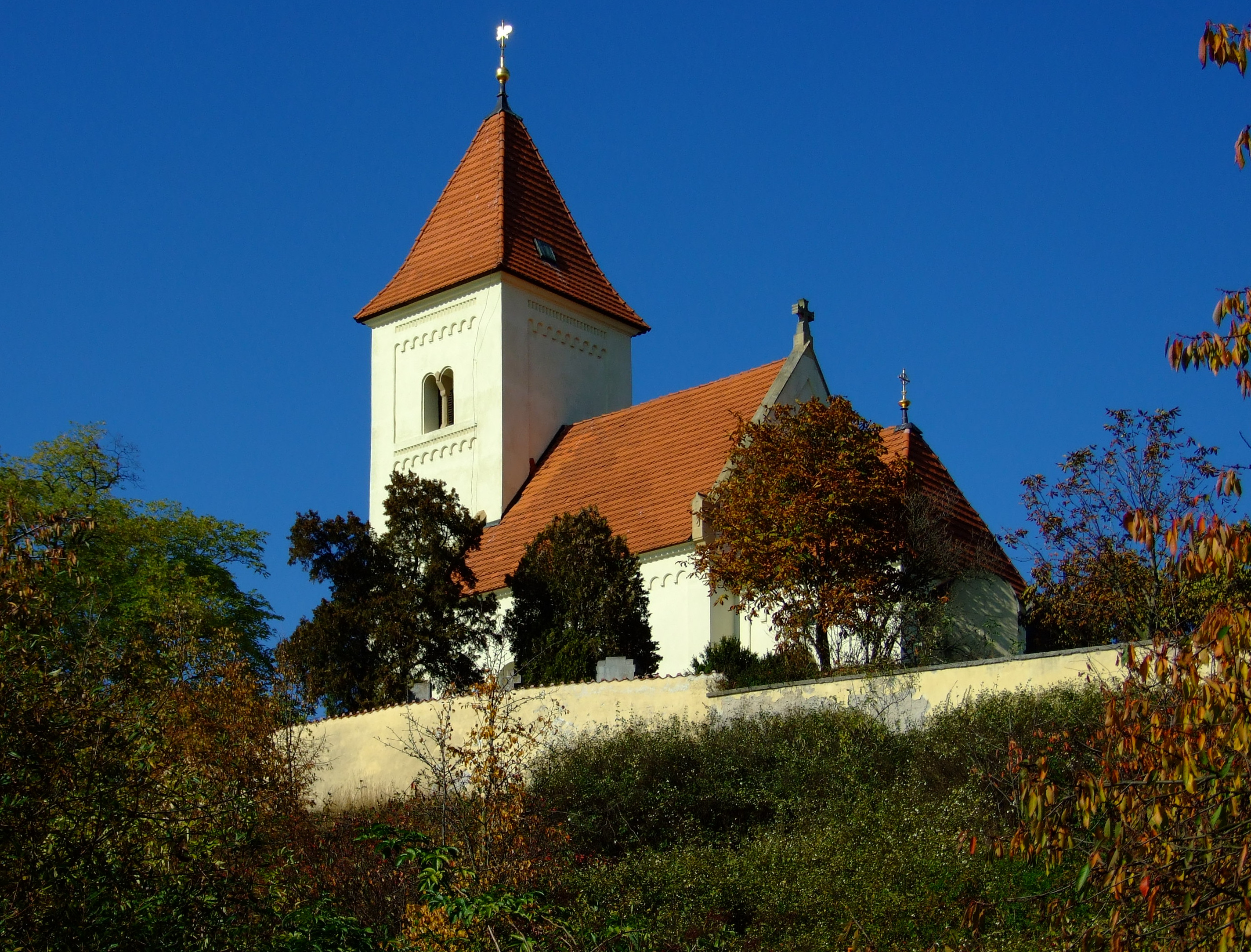 Krteň church, Prague-Třeboncie, Prague, CZhelp